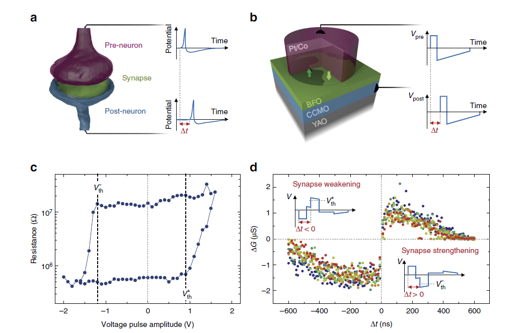 Artificial synapses based on Ferroelectric Tunnel Junctions